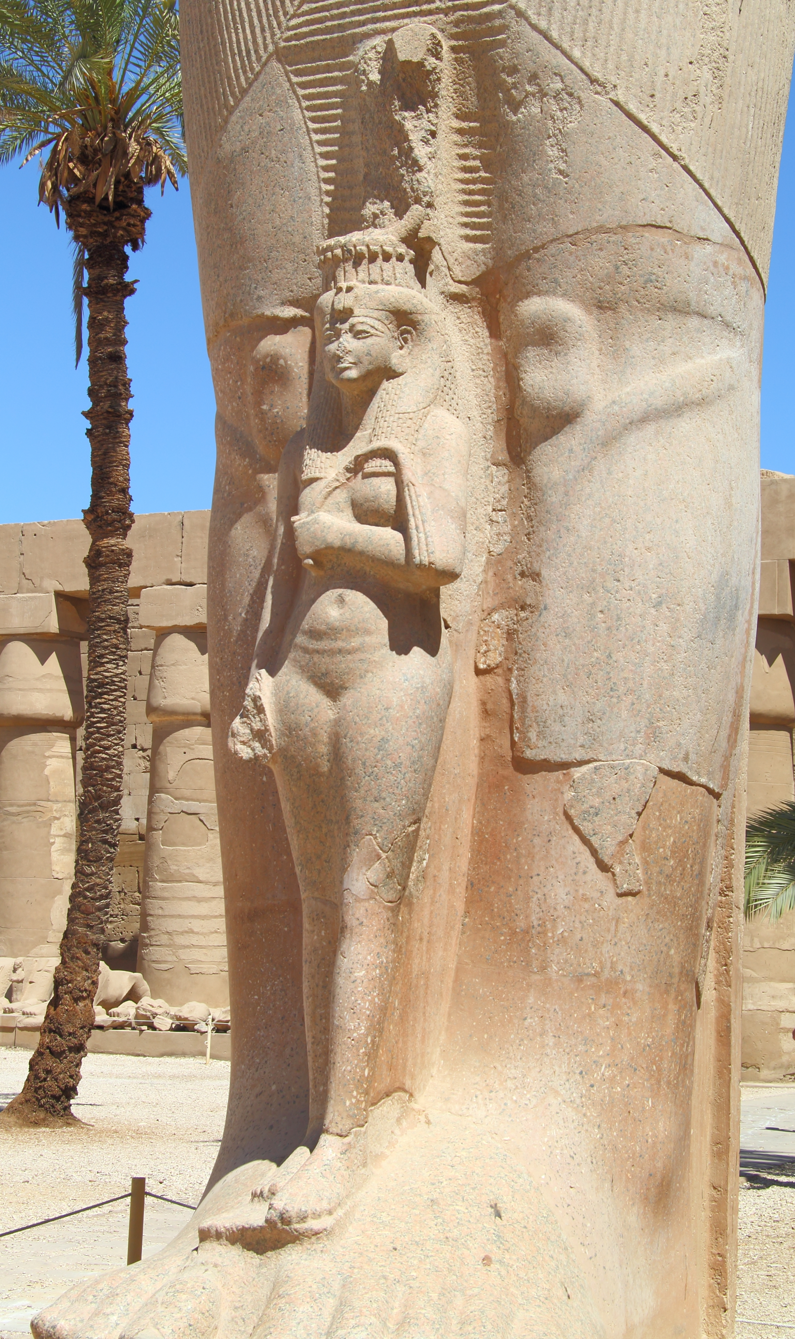 Luxor, Egypt: Karnak temple, statue of princess Meritamen standing in front of the statue of her father Ramesses II, or statue of Maatkare Mutemhat (usurped?)